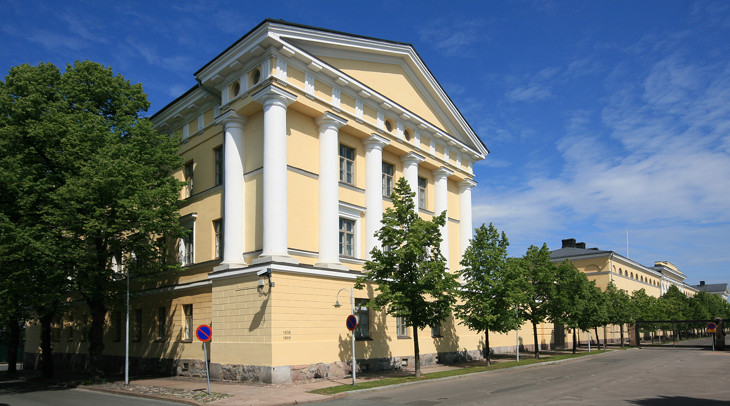 Naval barracks, Katajanokka, Helsinki. Built 1820s, architect Carl Ludvig Engel. Renovation and extention for the Ministry of Foreign Affairs by Erik Kråkstrom, 1989.